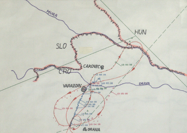 "Goldhaube" Austrian Radar plot 07 Jan. 1992.